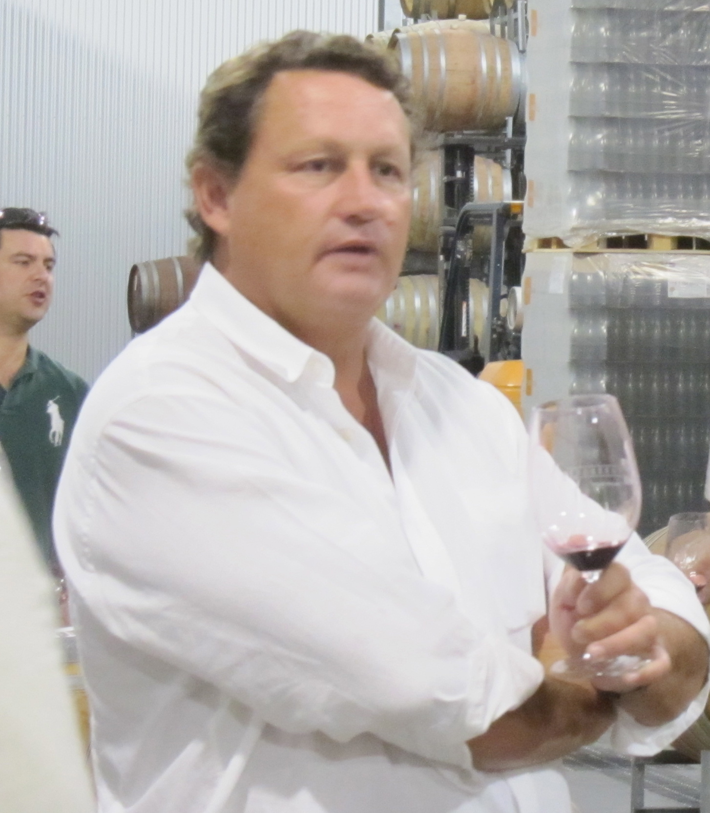 Founder and Chief winemaker at Torbreck Vintners